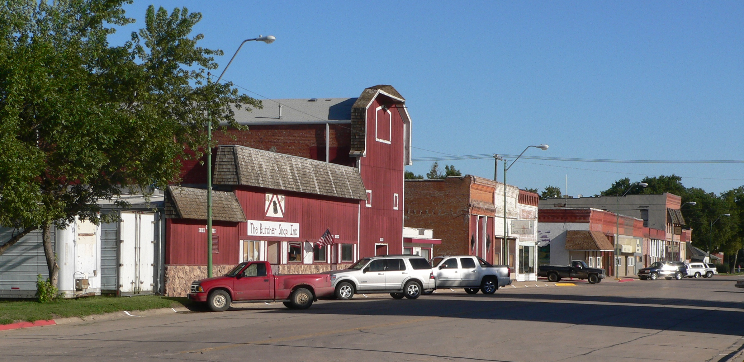 Downtown Fairfield, Nebraska: west side of D Street, looking northwest from about 3rd Street.